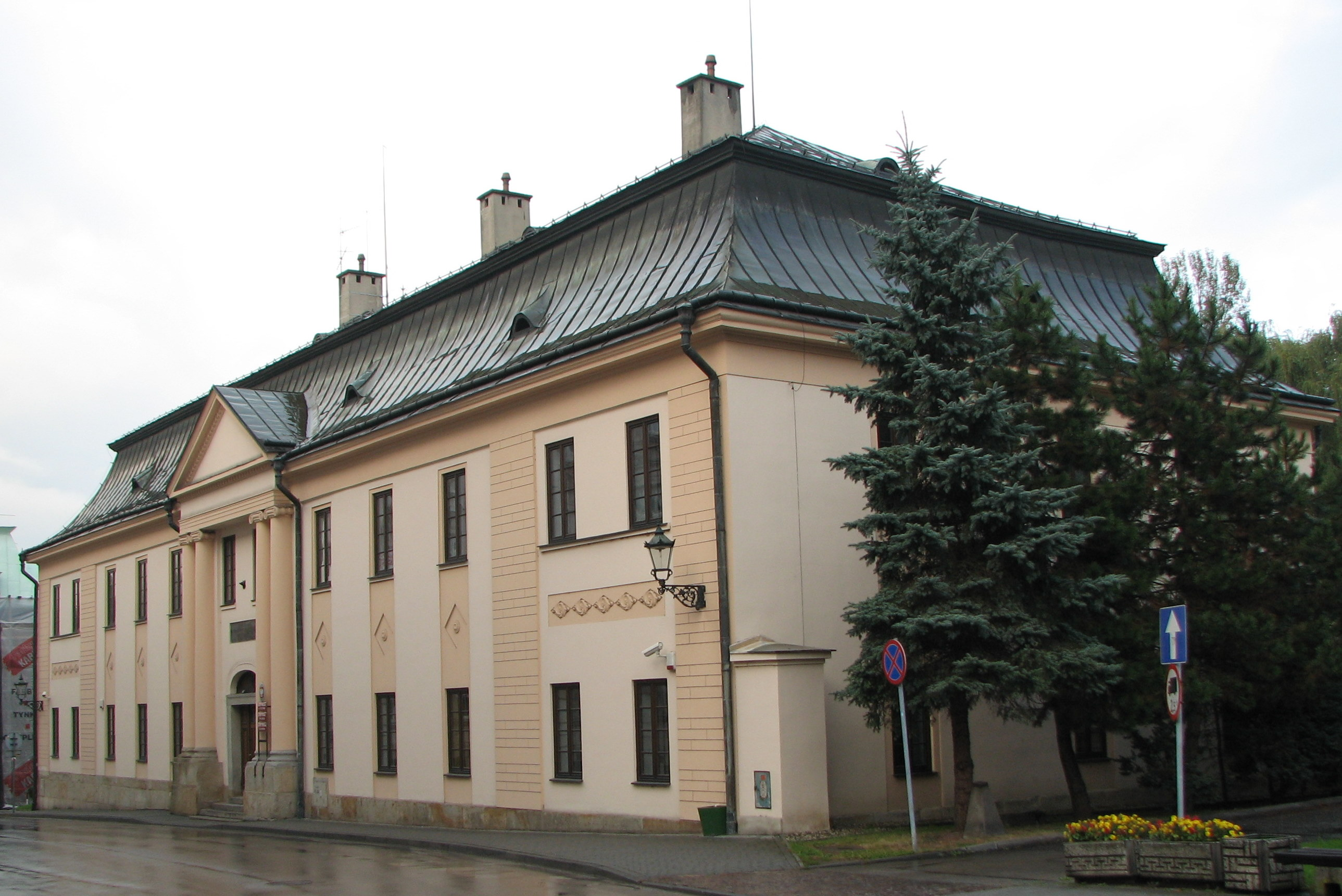 Old building at 14 Kochanowskiego Street in Cieszyn.